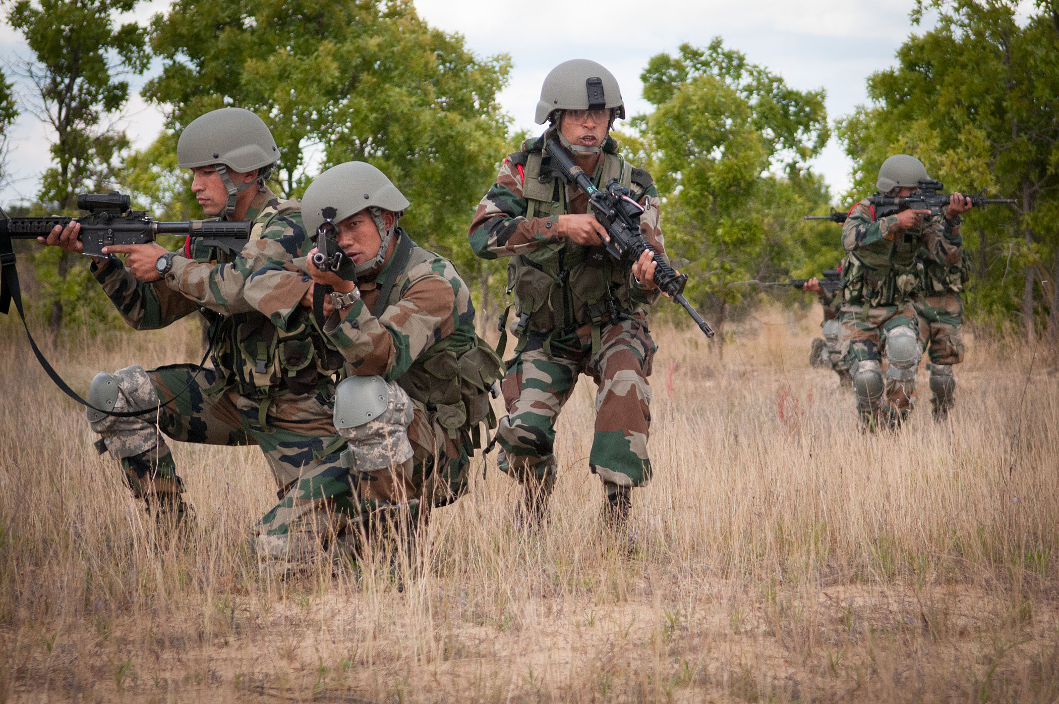 Indian Army soldiers with the 99th Mountain Brigade's 2nd Battalion, 5th Gurkha Rifles, move into position while demonstrating a platoon-level ambush to paratroopers with the U.S. Army's 1st Brigade Combat Team, 82nd Airborne Division, May 7, 2013, at Fort Bragg, N.C. The soldiers are part of Yudh Abhyas, an annual bilateral training event between the armies of the United States and India, sponsored by U.S. Army Pacific.